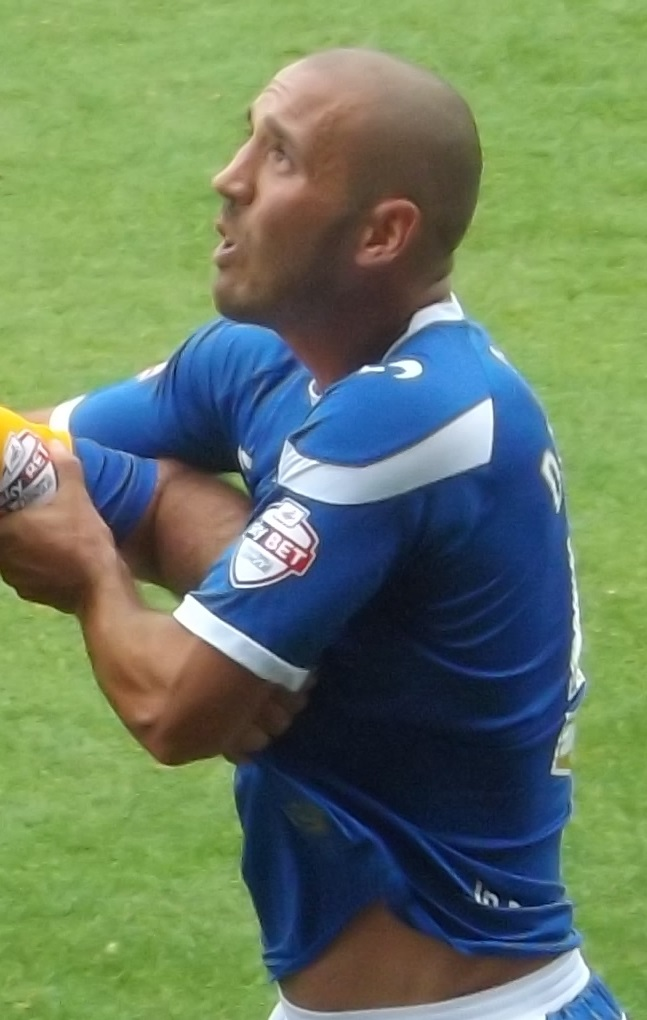 Joe Devera. Image cropped from original at flickr.